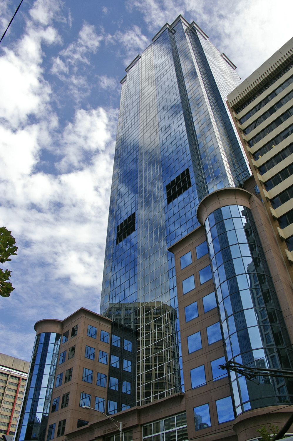 530 Collins Street. Melbourne, Victoria, Australia.